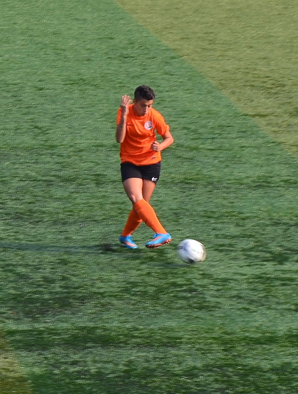 Büşra Demirörs playing for 1207 Antalya Muratpaşa Belediye Spor in the 2015-16 season away match.